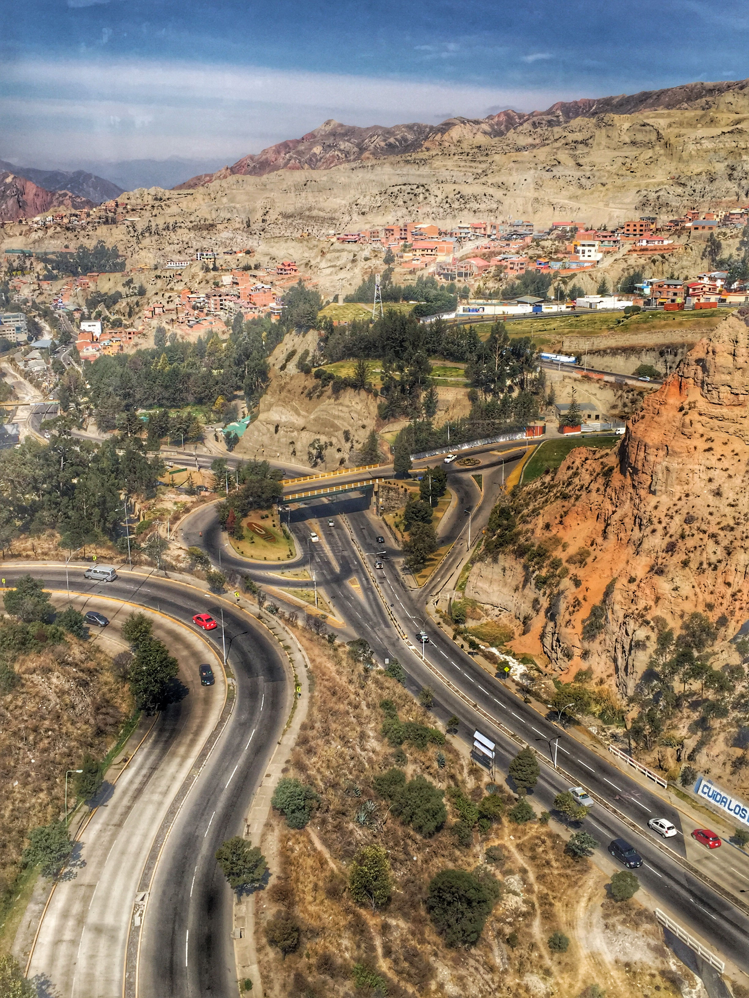 Avenida Kantutani (Kantutani Avenue) in La Paz, Bolivia.